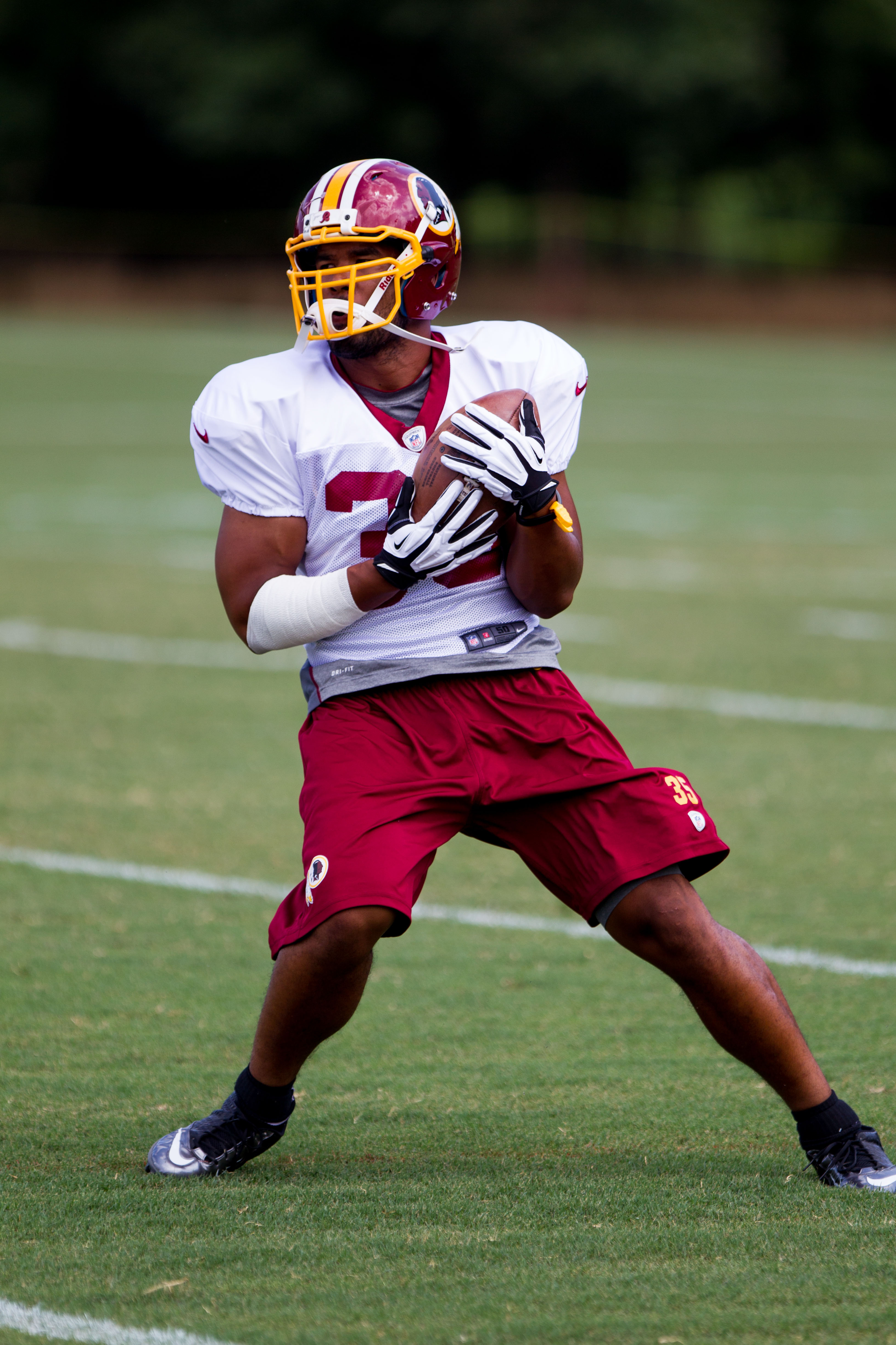 Evan Royster at Washington Redskins Training Camp July 30, 2012